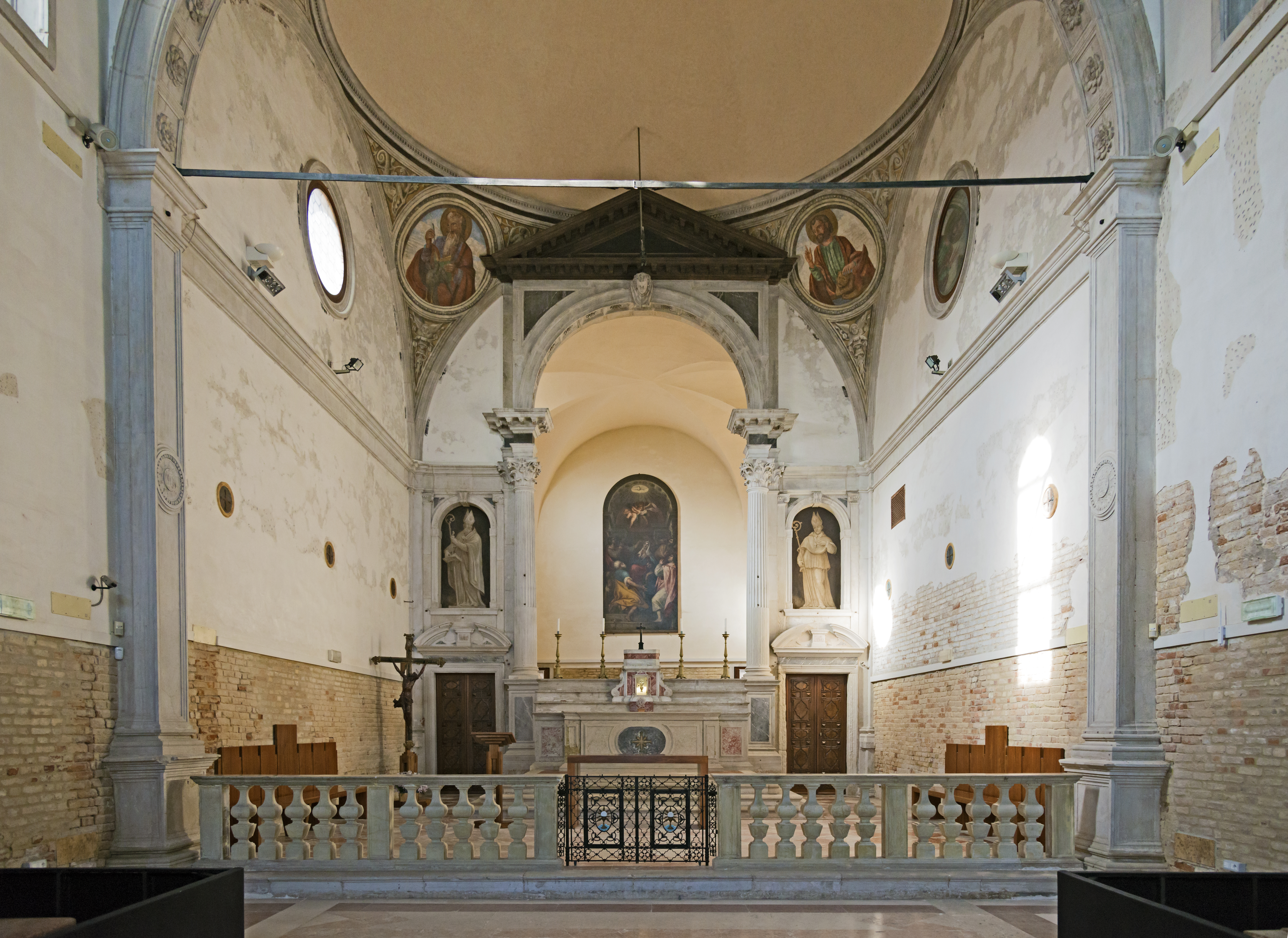 Santa Maria della Visitazione in Venice , Higt altar and "The miracle of Pentecost" by Padovanino, visible behind the main altar.